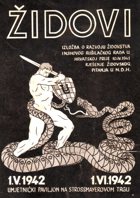 World War II poster announcing an antisemitic exhibition in Zagreb, held from 1 May to 1 June 1942 in the Art Pavilion. The poster reads "Jews - Exhibition about the development of Jewry and their destructive work in Croatia prior to 10 April 1941 - solving the Jewish question in the Independent State of Croatia."